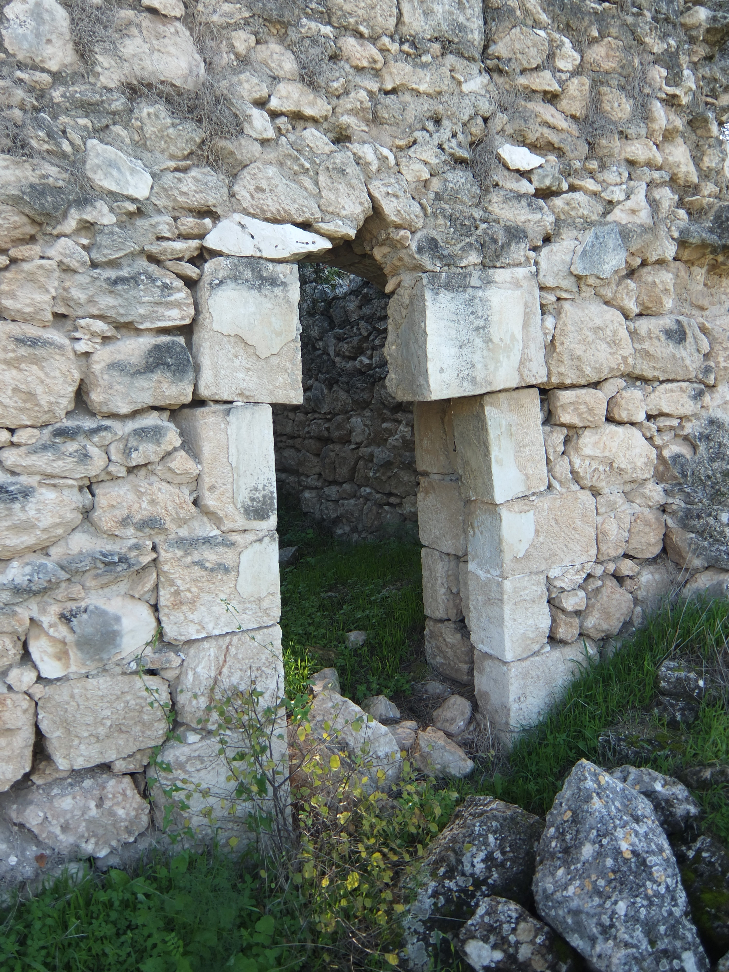 Entranceway to house now abandoned. Day Aban